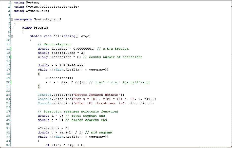 Code in C calculating root of a function via Newton-Raphson algorithm